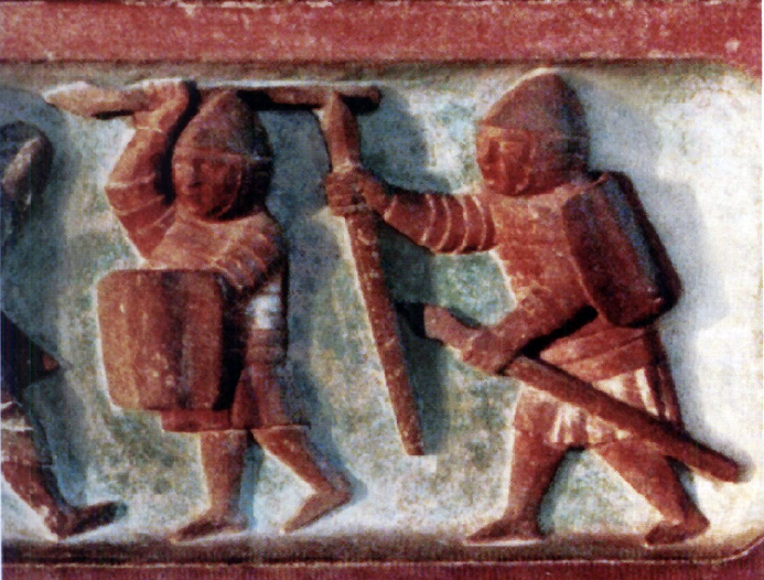 Lithuanians fighting Teutonic Knights.Evolvent of relief.